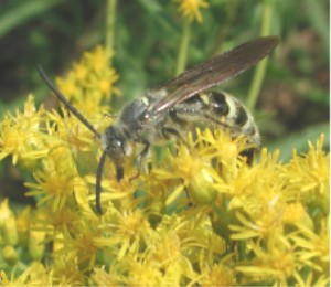 A male Dielis on Solidago spec. somewhere in the U.S.